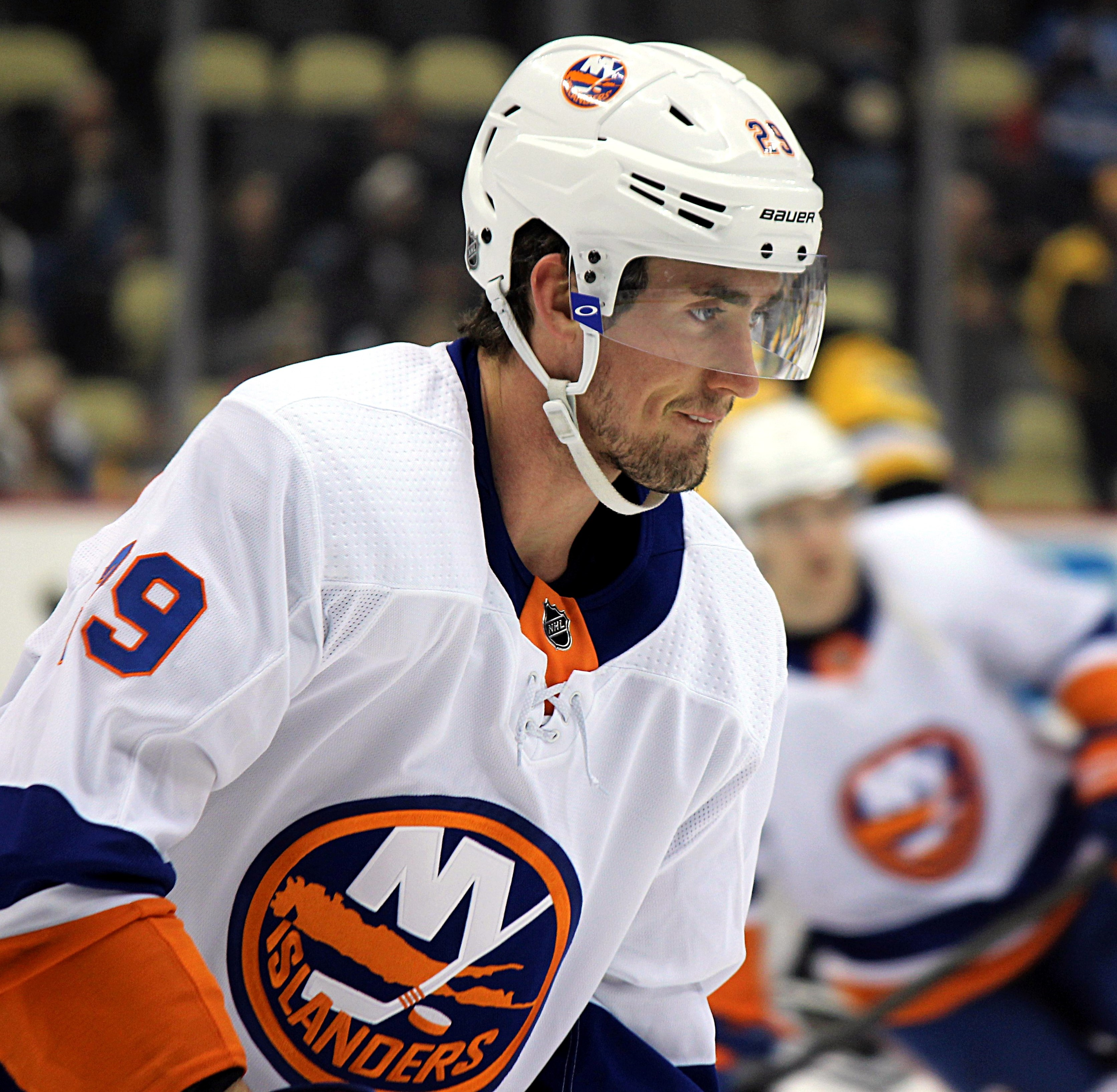 New Yorks Islanders forward Brock Nelson during a game against the Pittsburgh Penguins at PPG Paints Arena in Pittsburgh, PA. Saturday, March 3, 2018.